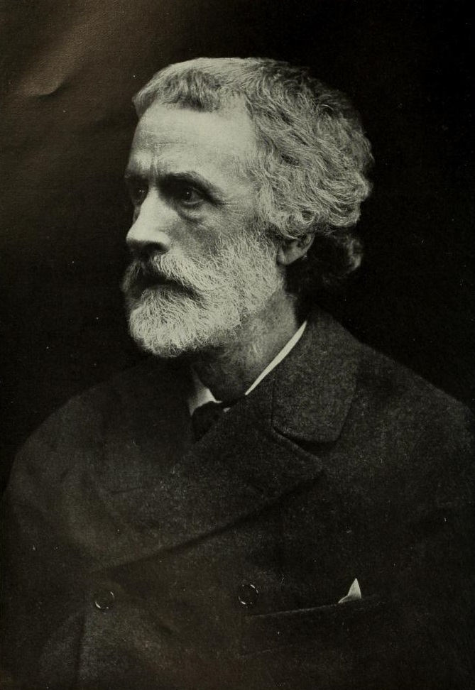 Portrait of George Meredith